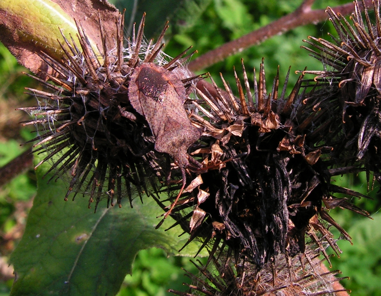 Dock bug on the infructescences of Woolly burdock. Moscow region, Russia.